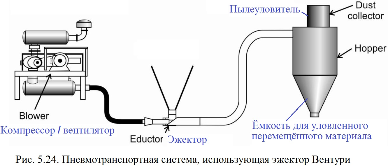 Figure 5.24. Conveyance system utilizing a venturi eductor device.